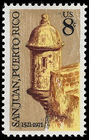 San Juan, Puerto Rico was commemorated with an 8-cent stamp on its 450th anniversary issued September 12, 1971. The vignette pictures a sentry box from Castillo de San Felipe del Morro. San Juan was founded in 1519, and fortress construction began in 1539.